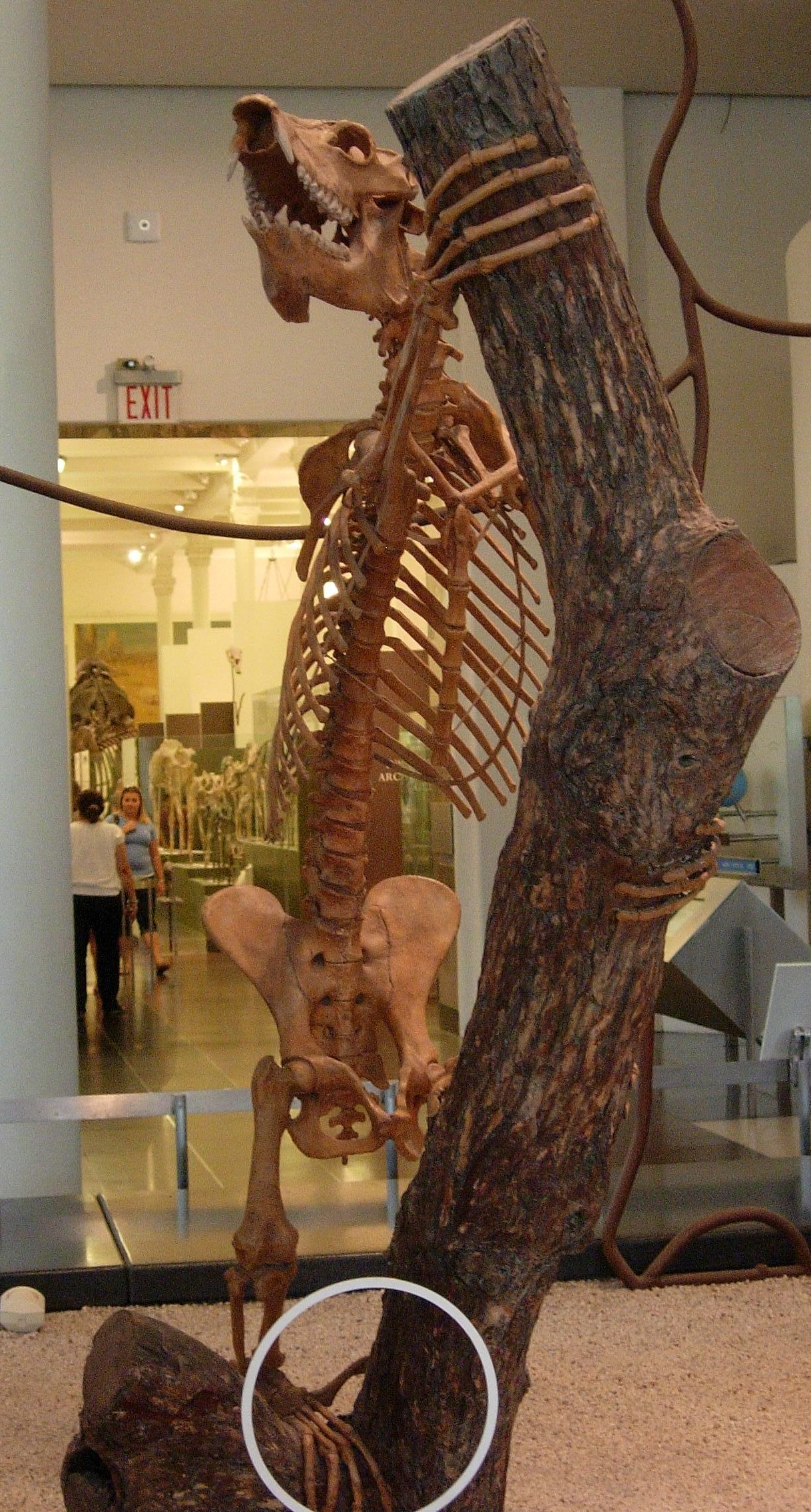 Megaladapis edwardsi, a subfossil lemur from Madagascar. The circle (part of the exhibit) highlights the animal's flexible ankle, a trait common to both primates and their close relatives, bats. Photo was taken in the American Museum of Natural History's Lila Acheson Wallace Wing of Mammals and Their Extinct Relatives Hall of Primitive Mammals